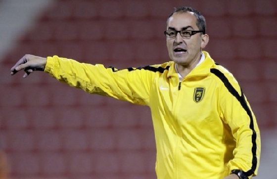 Raul Caneda Coach of Saudi Arabian club Al Ittihad